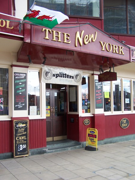 The New York bar/pub, Swansea, Wales, UK. Published by Aberdare Blog